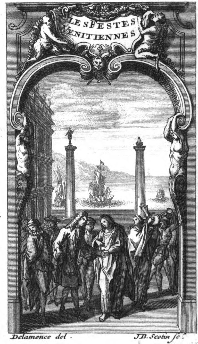 Les Festes vénitiennes, plate introducing the libretto of André Campra and Antoine Danchet’s opera in Recueil general des opera réprésentez par l'Academie Royale de Musique, depuis son etablissement. Tome dixième, Paris, Ballard, 1714, pp. 129-252